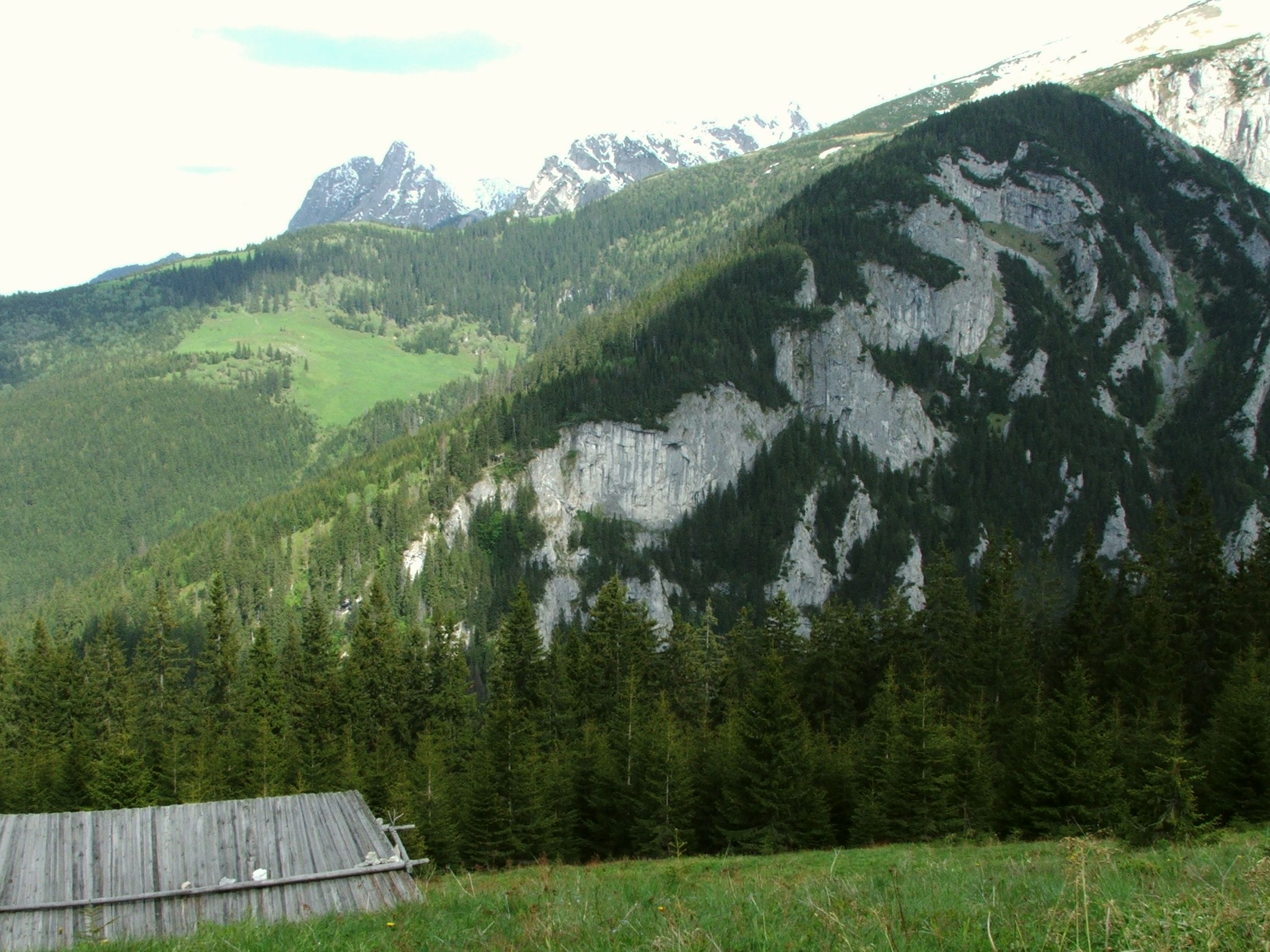 Giewont viev from Hala Stoły